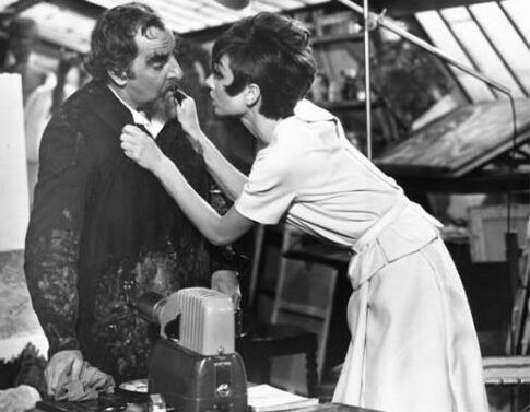 Hugh Griffith & Audrey Hepburn in the scene taken for film How to Steal a Million (1966). See also film still. No copyright notice.